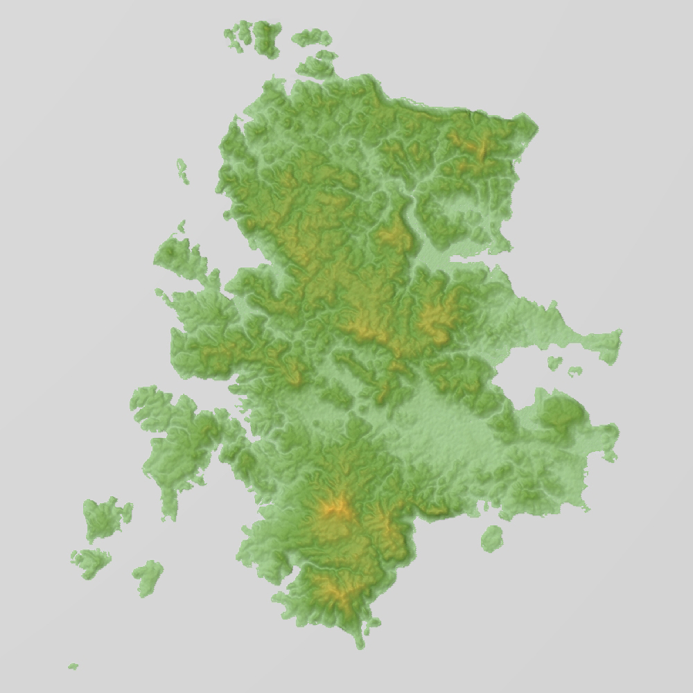 Iki Island in Nagasaki Prefecture, Japan.